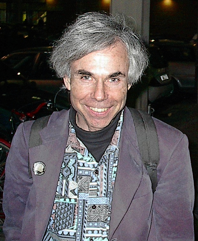 Douglas Hofstadter in Bologna, Italy